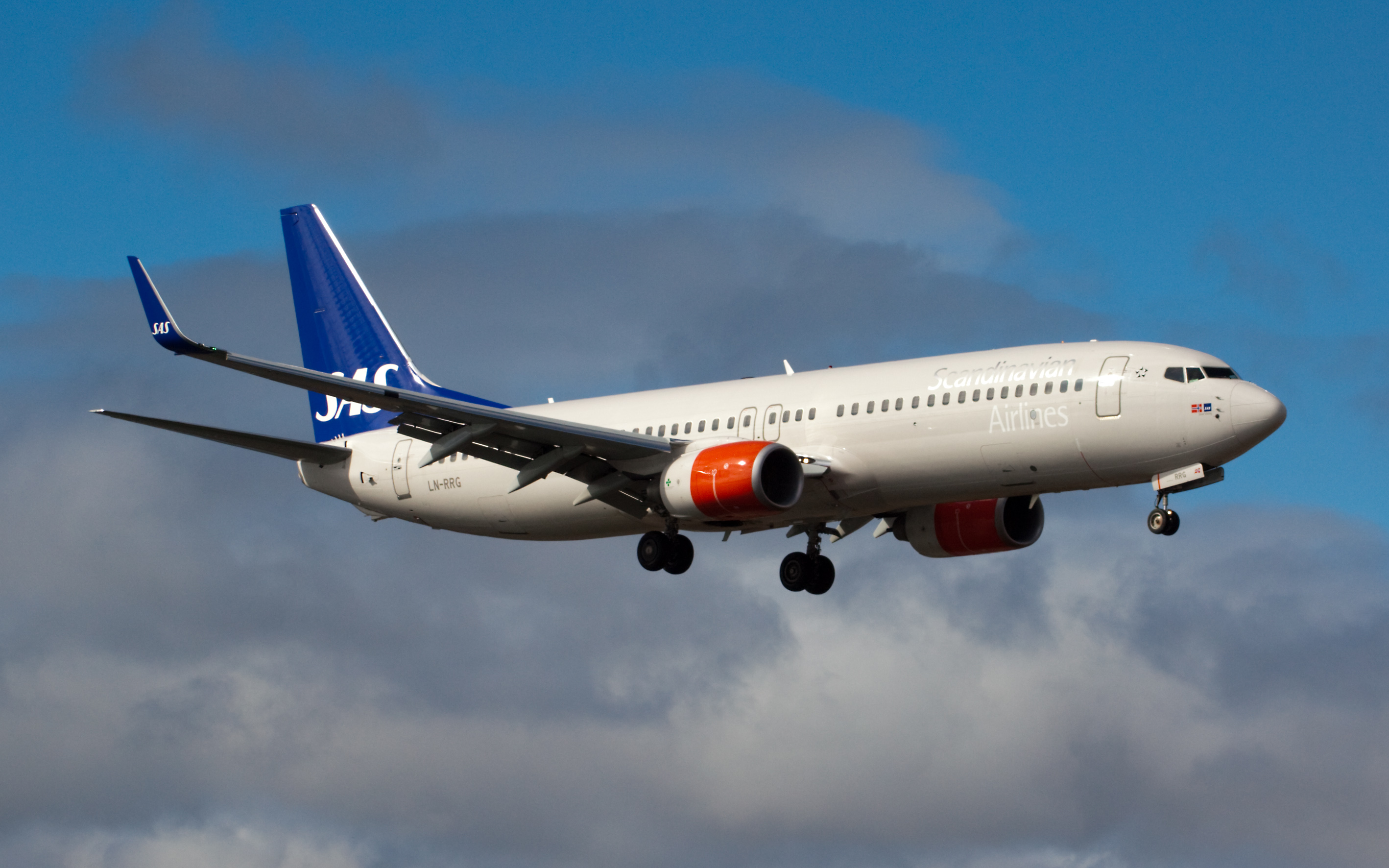 SAS Boeing B737-883 (LN-RRG) at Lanzarote Airport, Spain.